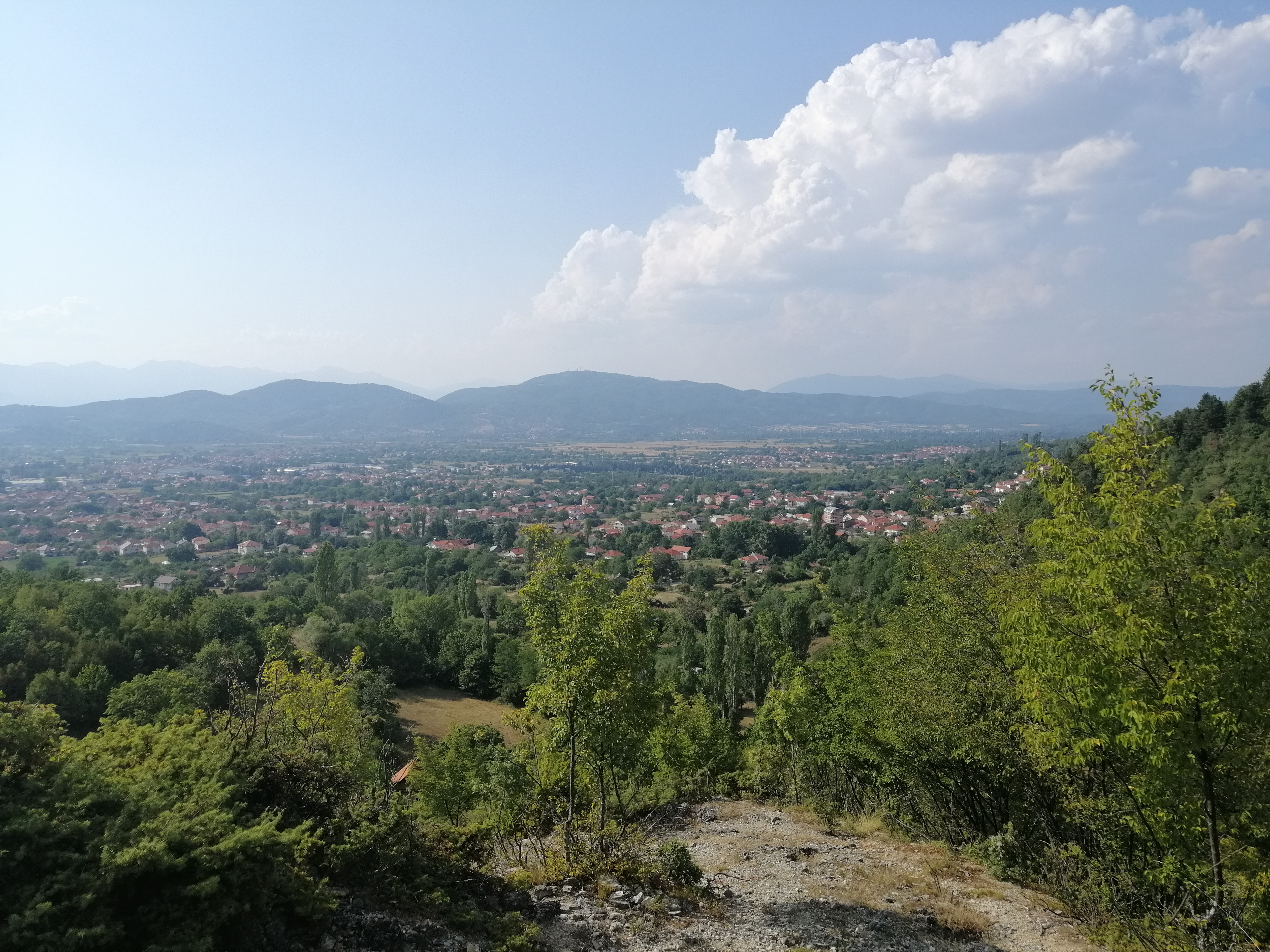 View of the village Velgošti